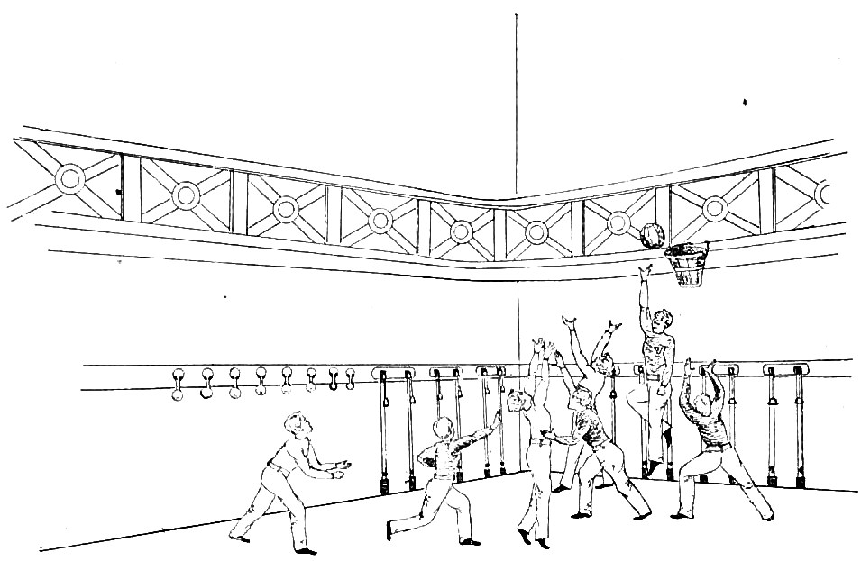 illustration in scan of original print as it appears in the January 15, 1892 publication of The Triangle.